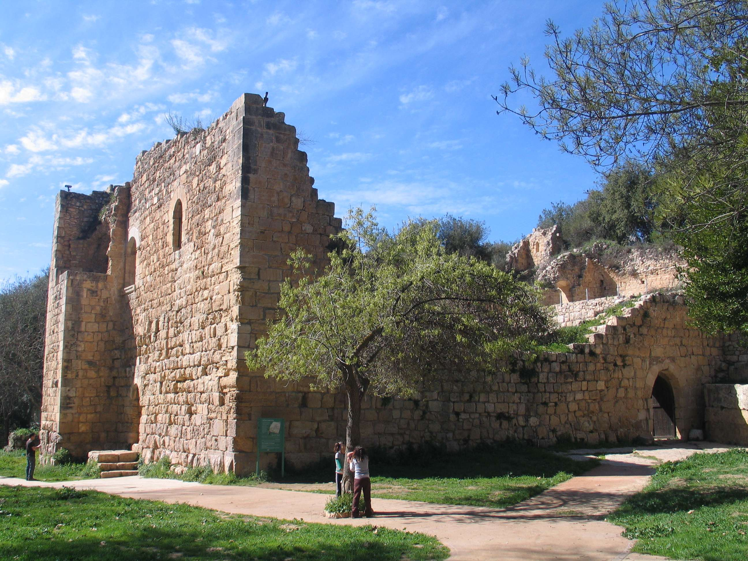 Ruins of a crusader structure (Aqua Bella) in Ein Hemed national park, Israel.